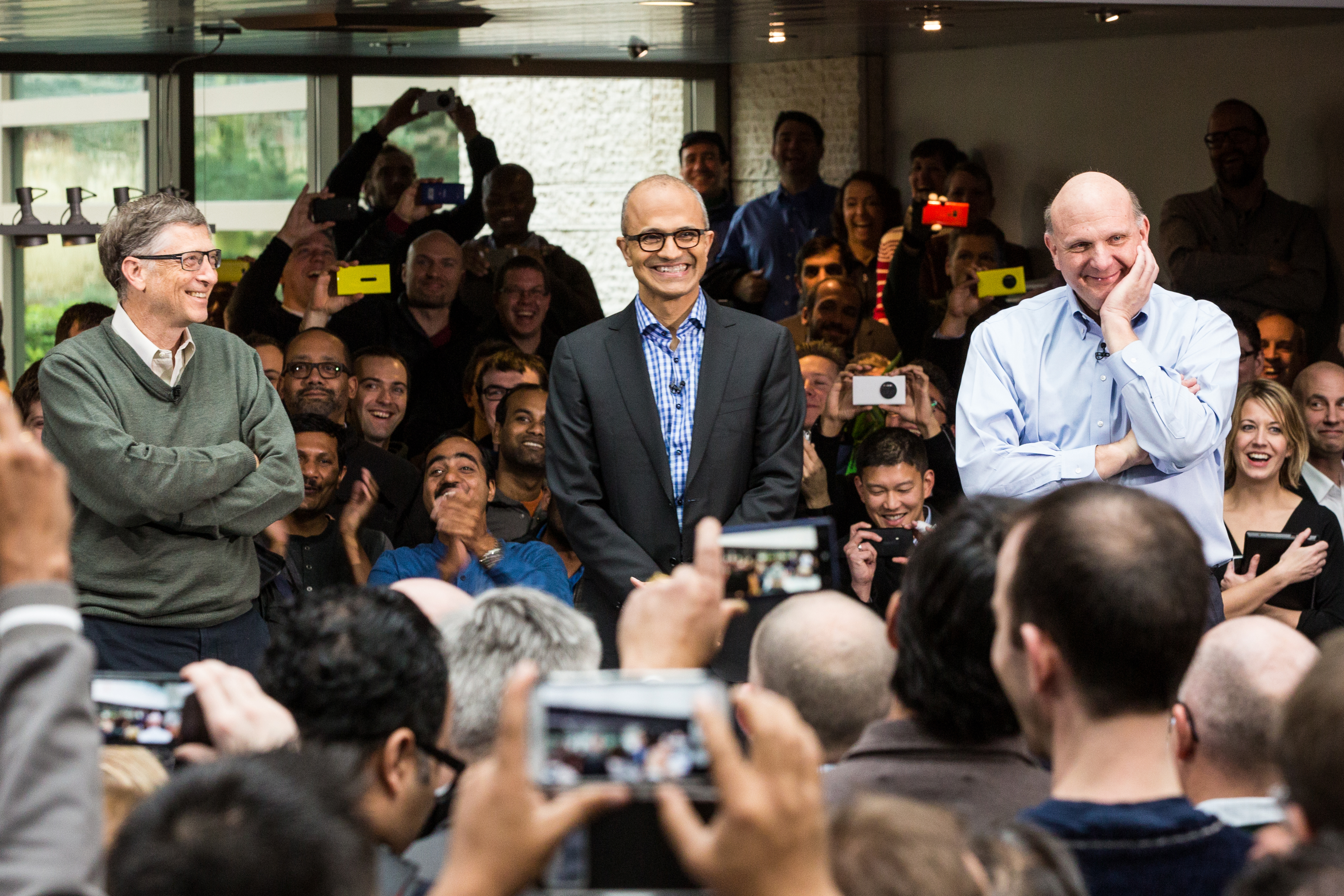 Microsoft CEOs: Current and former. L-R: Bill Gates, Satya Nadella, Steve Ballmer, photographed on Nadella’s first day as CEO.